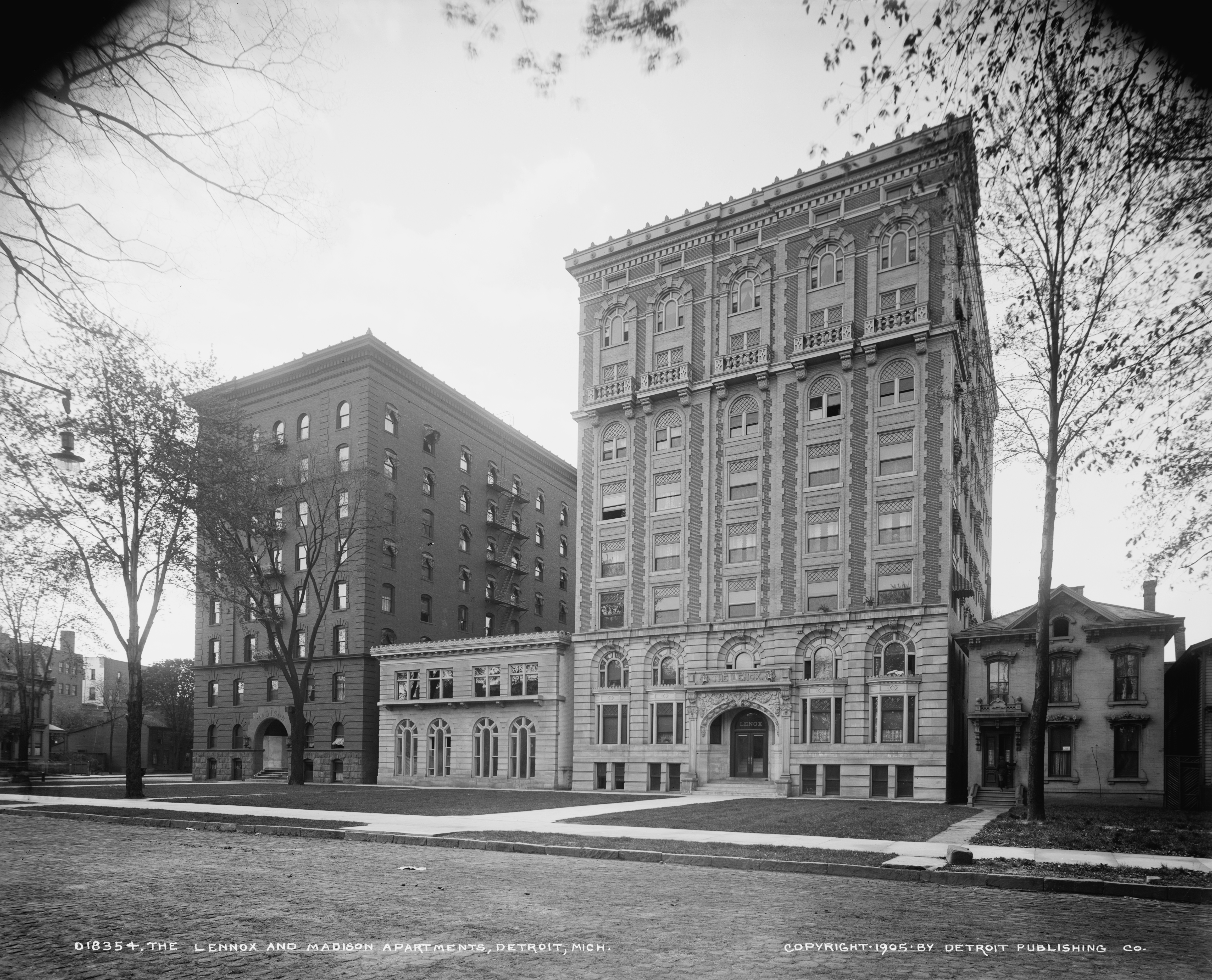 Lenox and Madison Apartments, Detroit, Mich